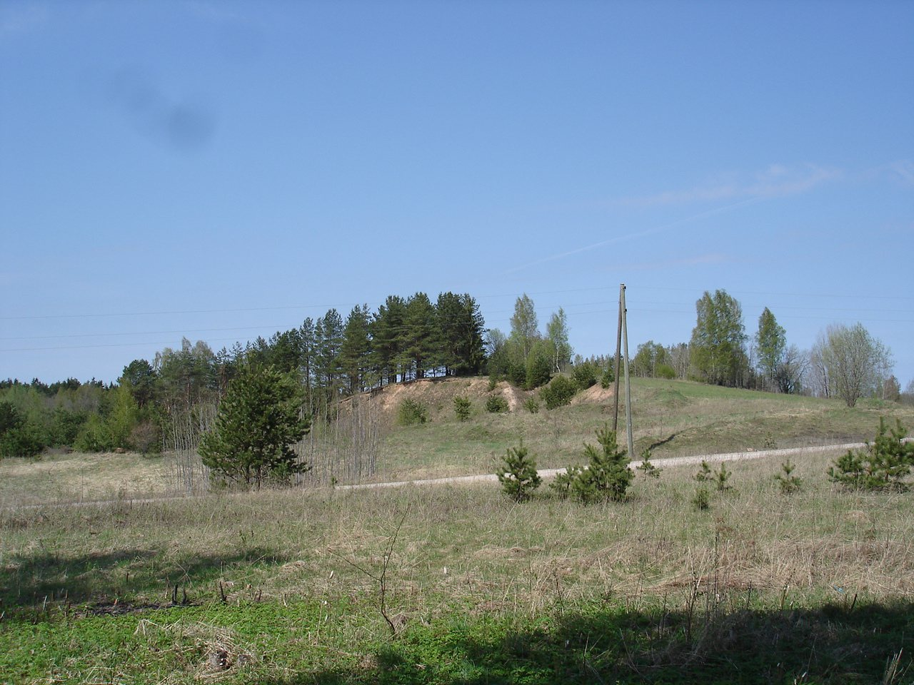 hill